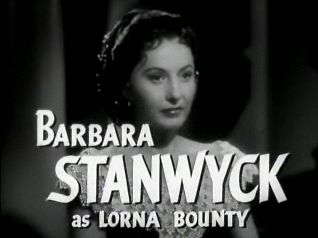 Cropped screenshot of Barbara Stanwyck from the trailer for the film The Man with a Cloak